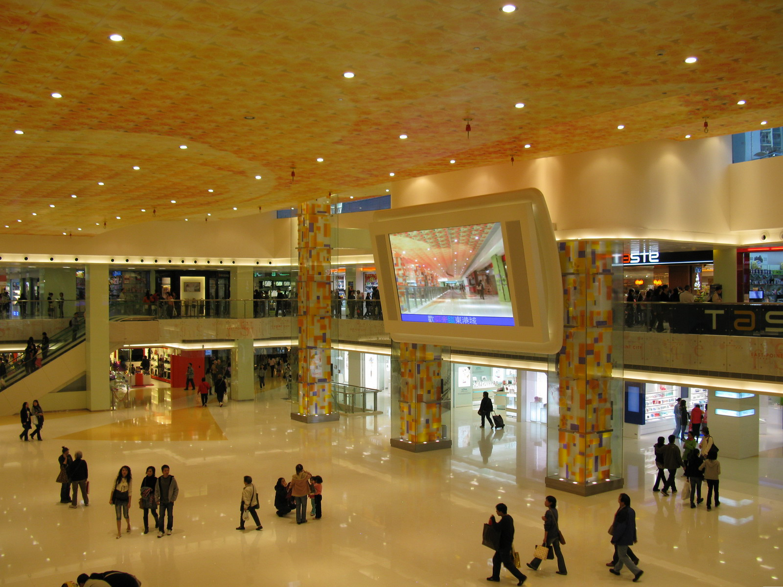 東港城中庭 East Point City Atrium